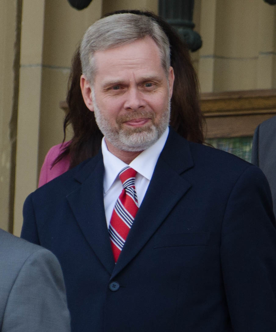 Chris Nielsen at the 2015 Alberta Premier/Cabinet swearing-in ceremony, by Connor Mah.